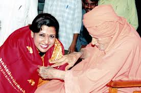 Sudha